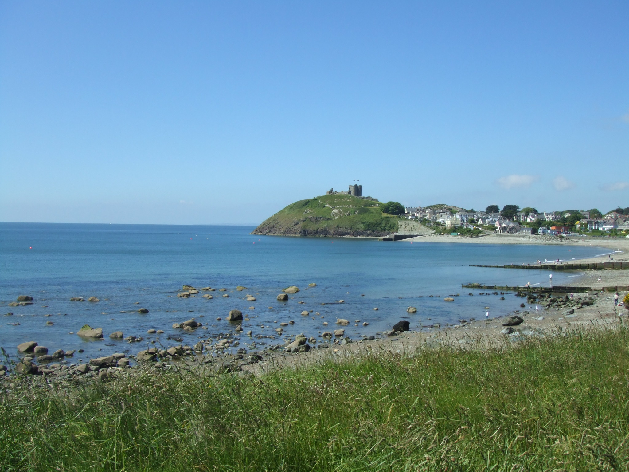 Criccieth castle and beach. Taken by James@hopgrove, May 2006